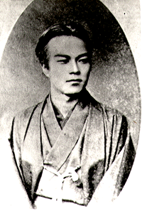 Meiji period businessman Godai Tomoatsu